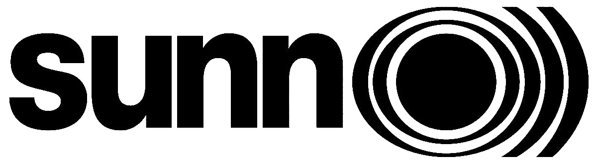 Sunn O))) Logo